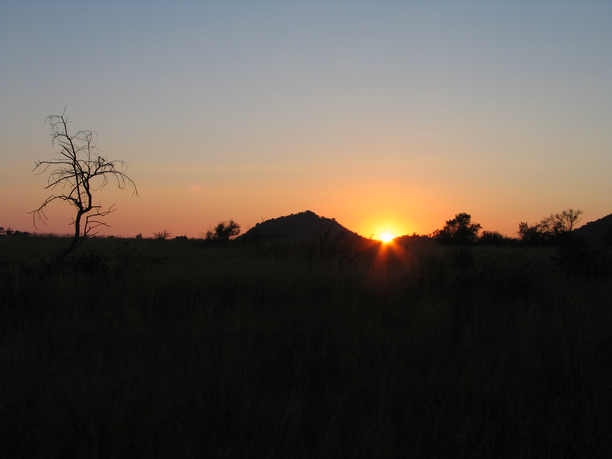 Daybreak over Pilanesberg, South Africa